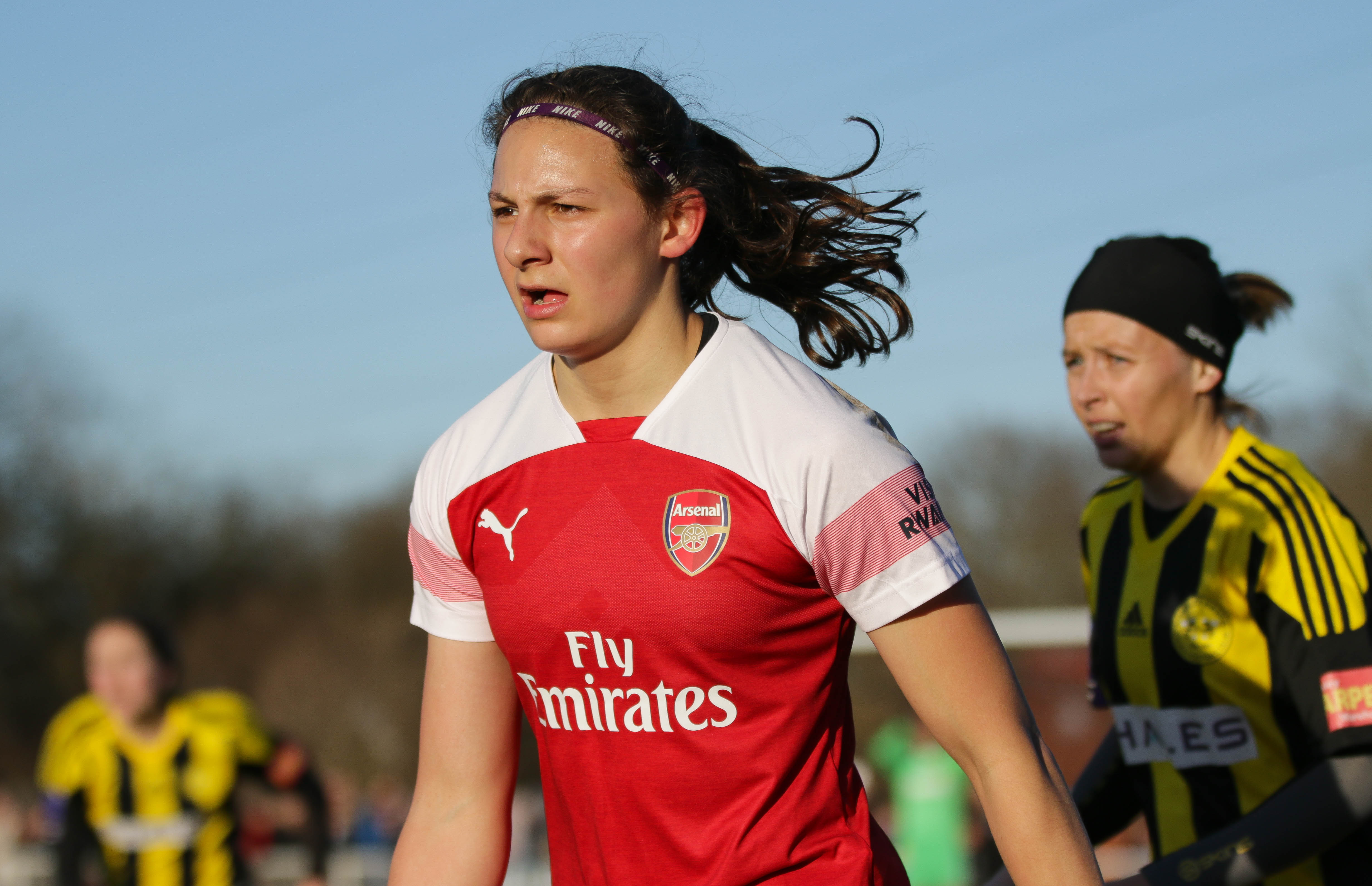 Melissa Filis playing for Arsenal in February 2019